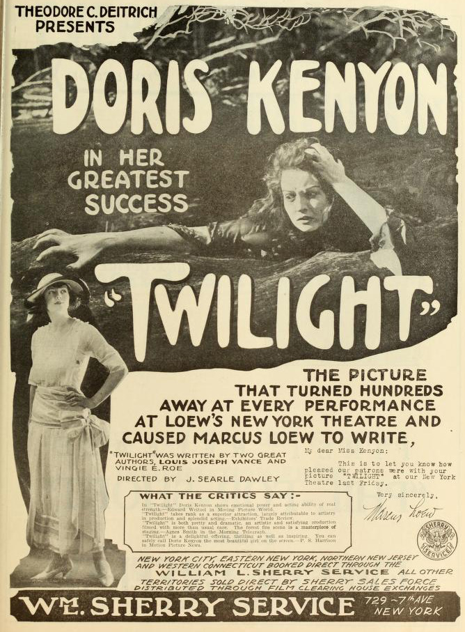 Advertisement in Moving Picture WOrld, May 1919 for the American silent film Twilight (1919).